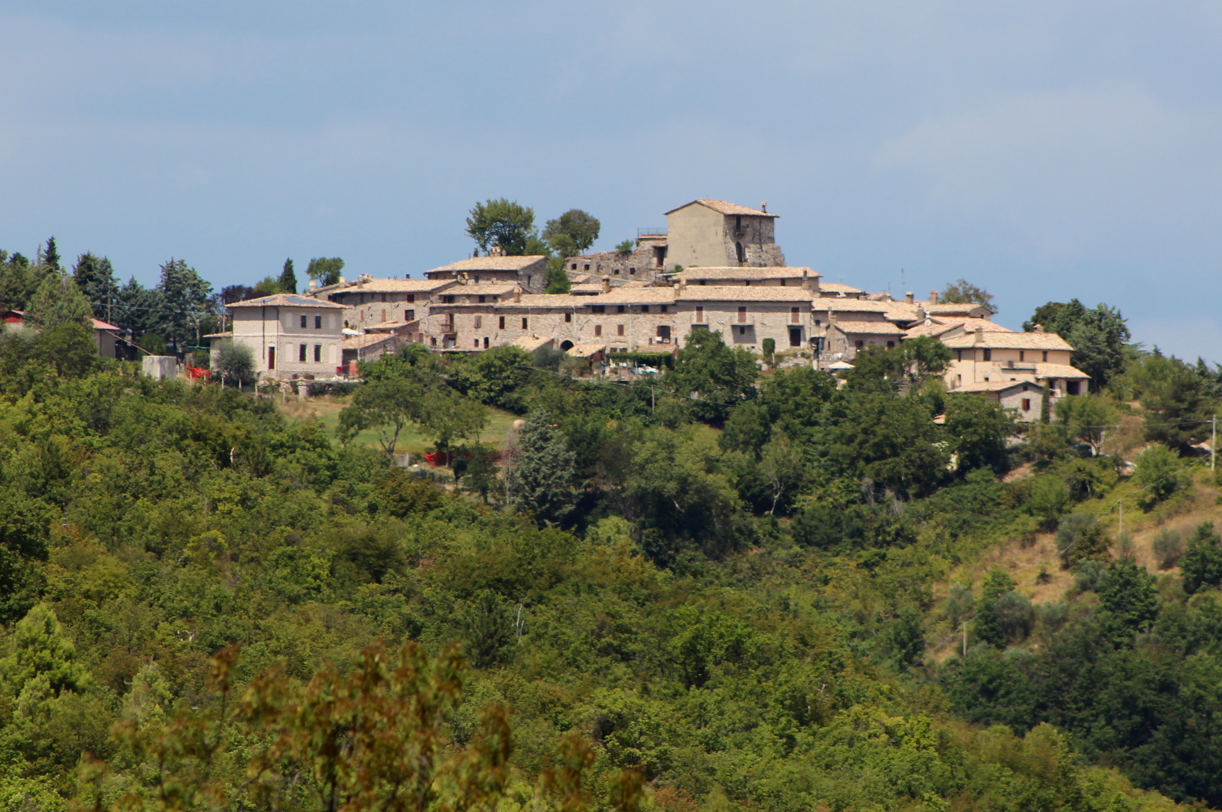 Armenzano, hamlet of Assisi, Province of Perugia, Umbria, Italy